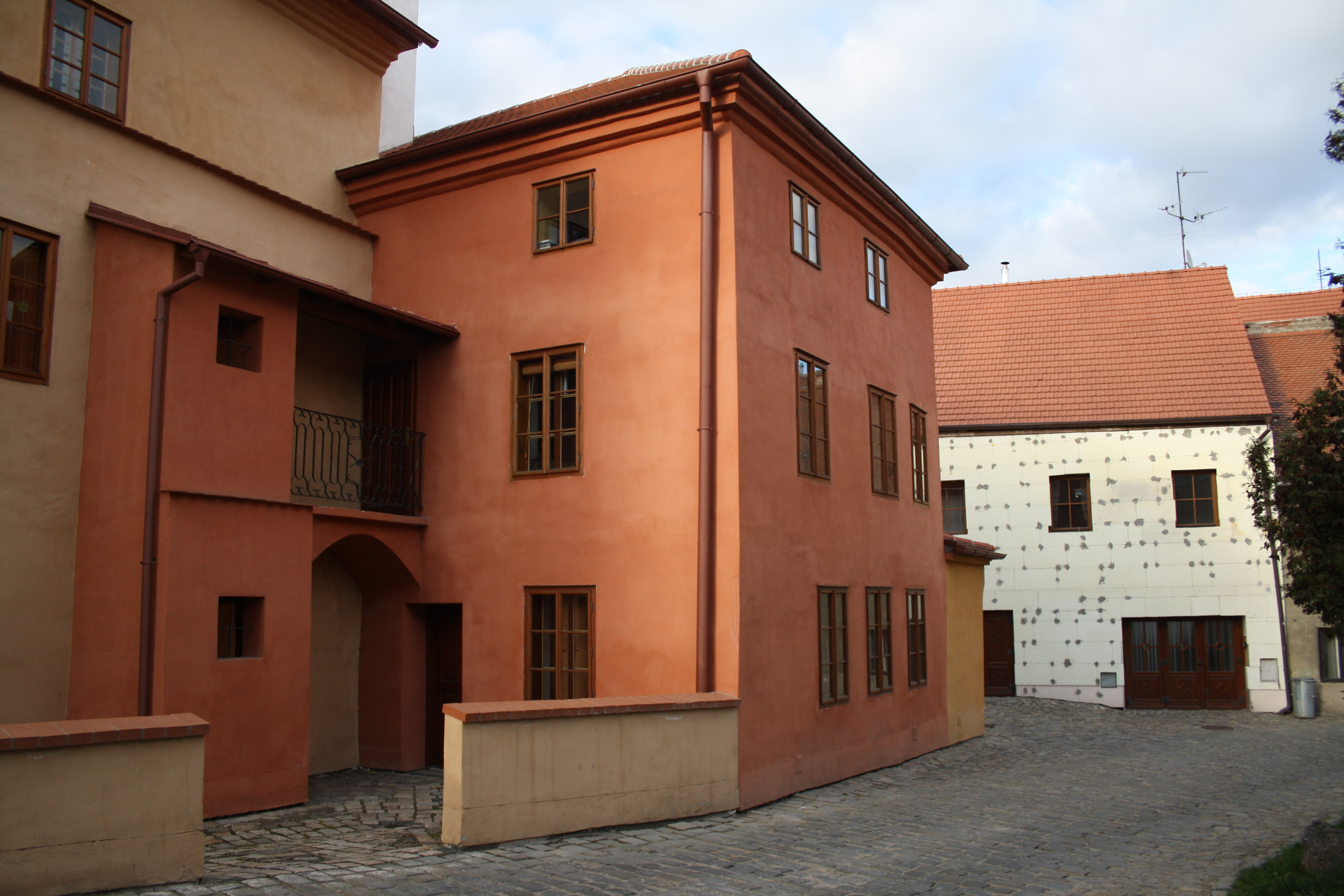 Reconstrued house in jewish city in Třebíč, Czech Republic.